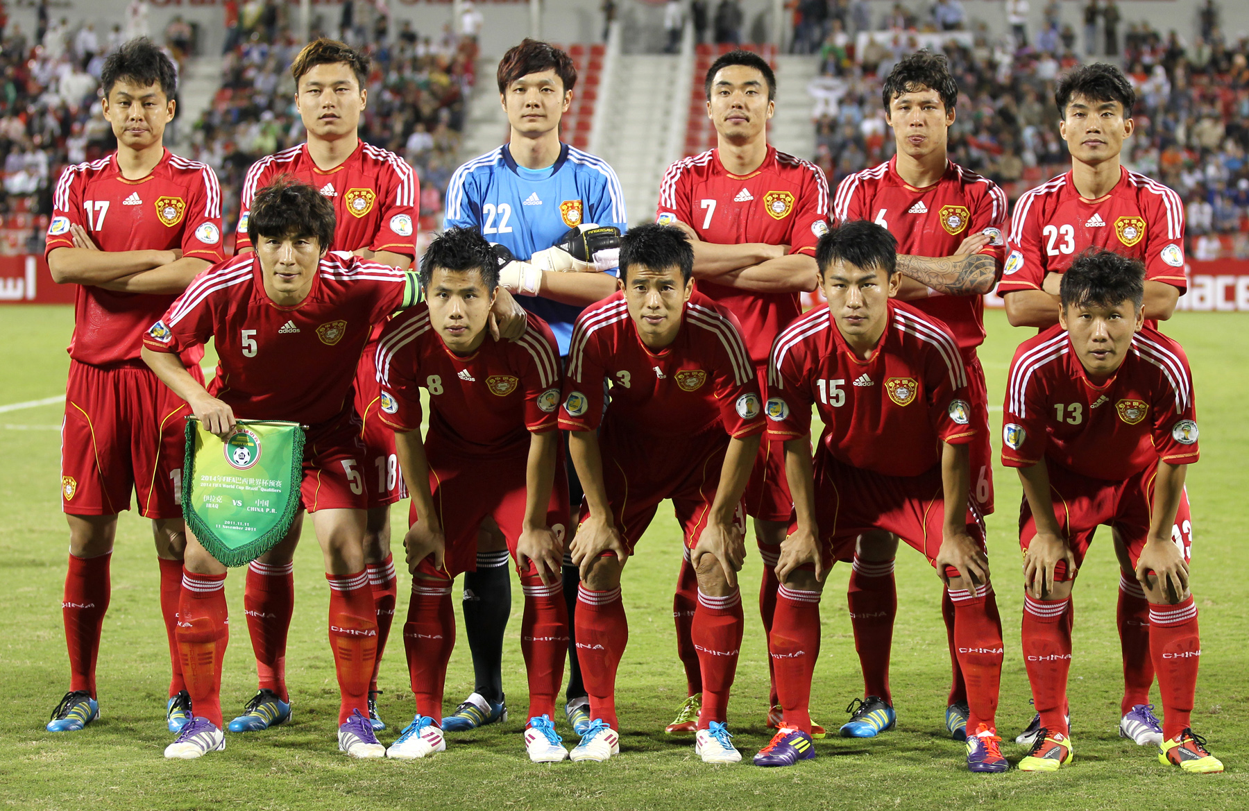 Members of the Chinese national football team pose for a group picture.